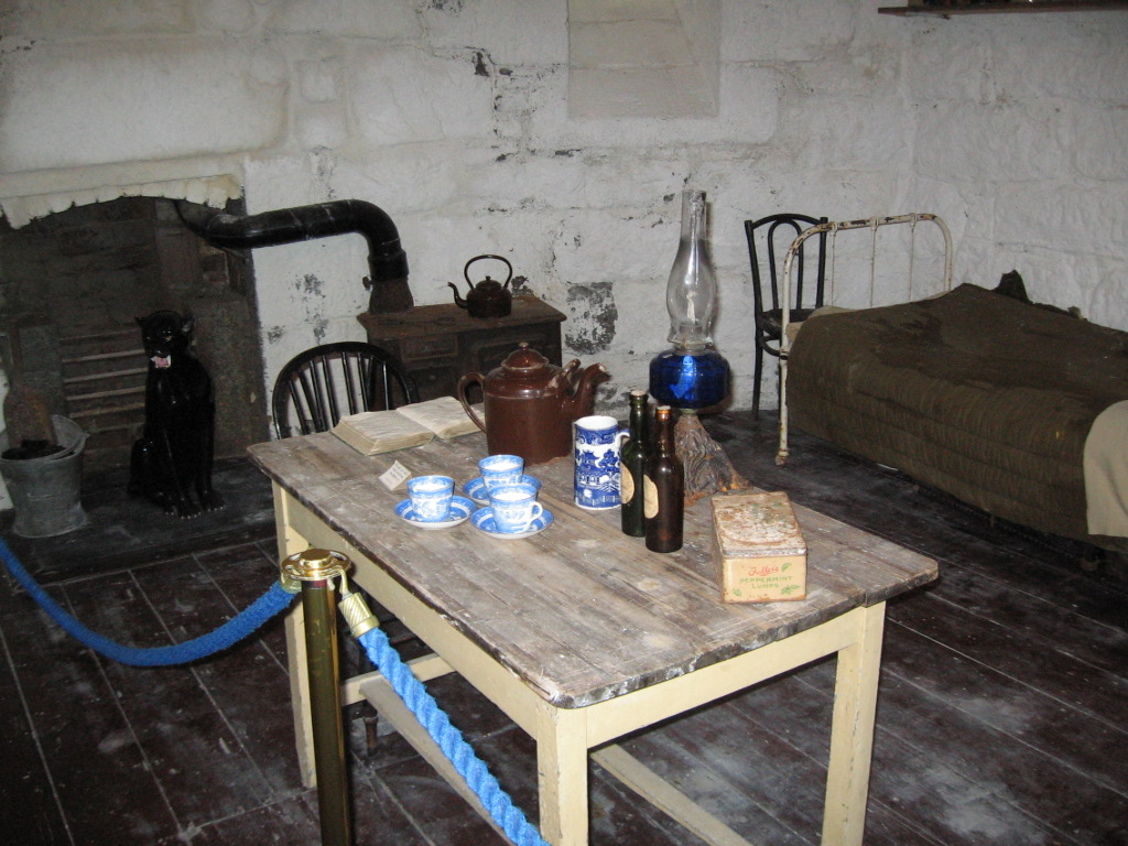 interiors of the tower